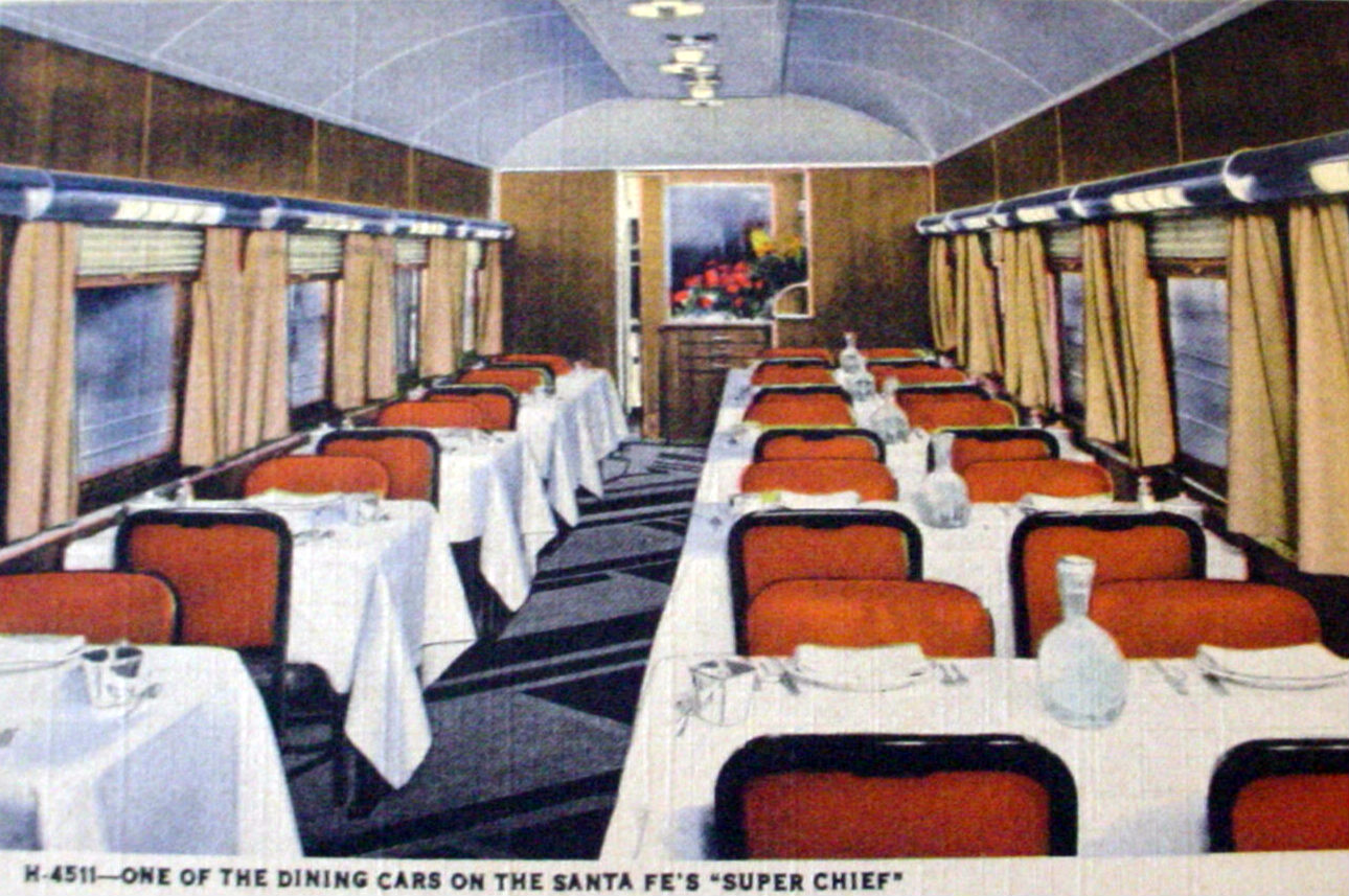 Photo postcard of the dining car on the Santa Fe Railroad's "Super Chief".